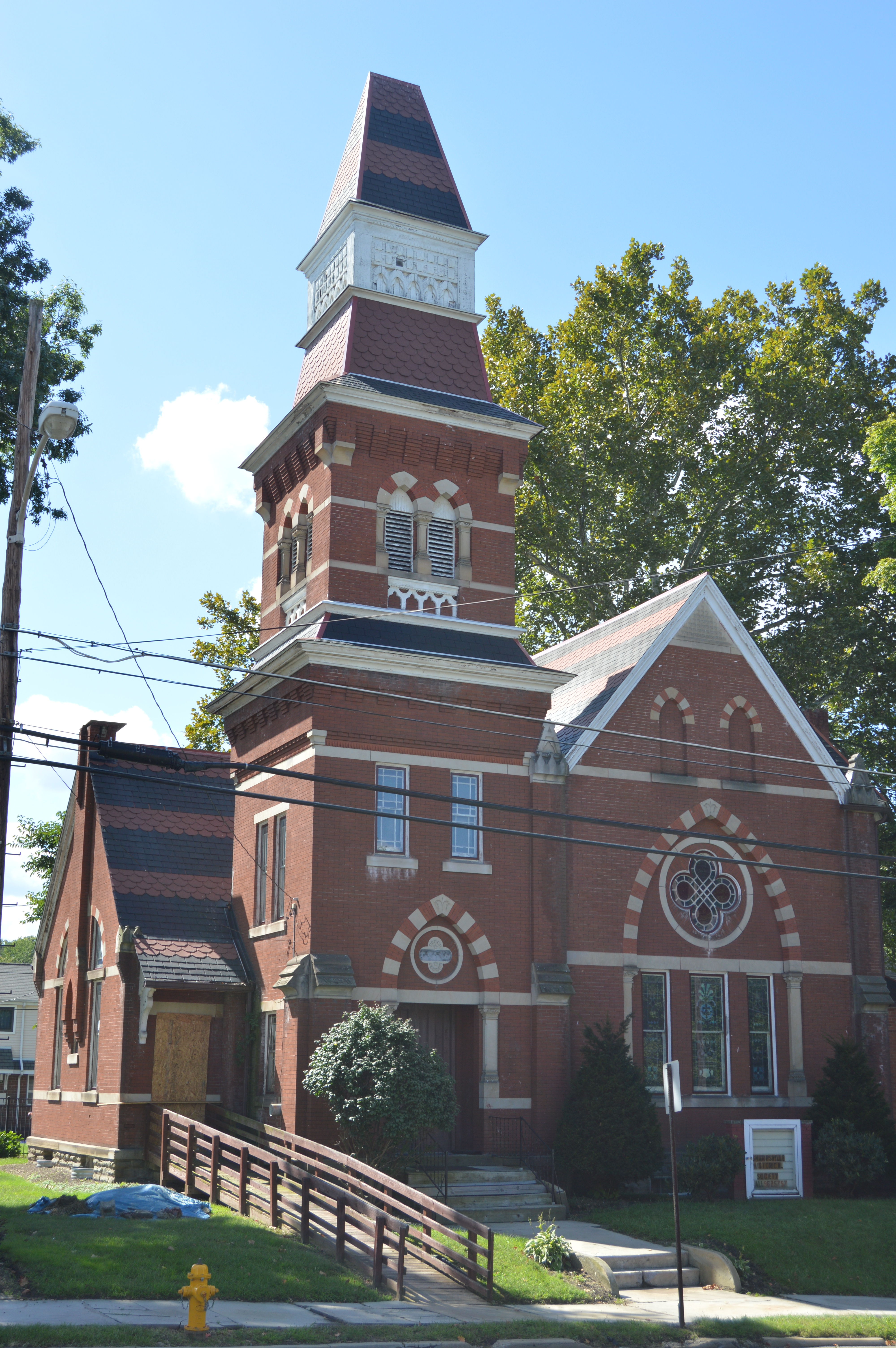 Front of the First Universalist Church of Sharpsville (now the historical society museum), located at 131 N. Mercer Avenue in Sharpsville, Pennsylvania, United States. Built in 1882, it is listed on the National Register of Historic Places.